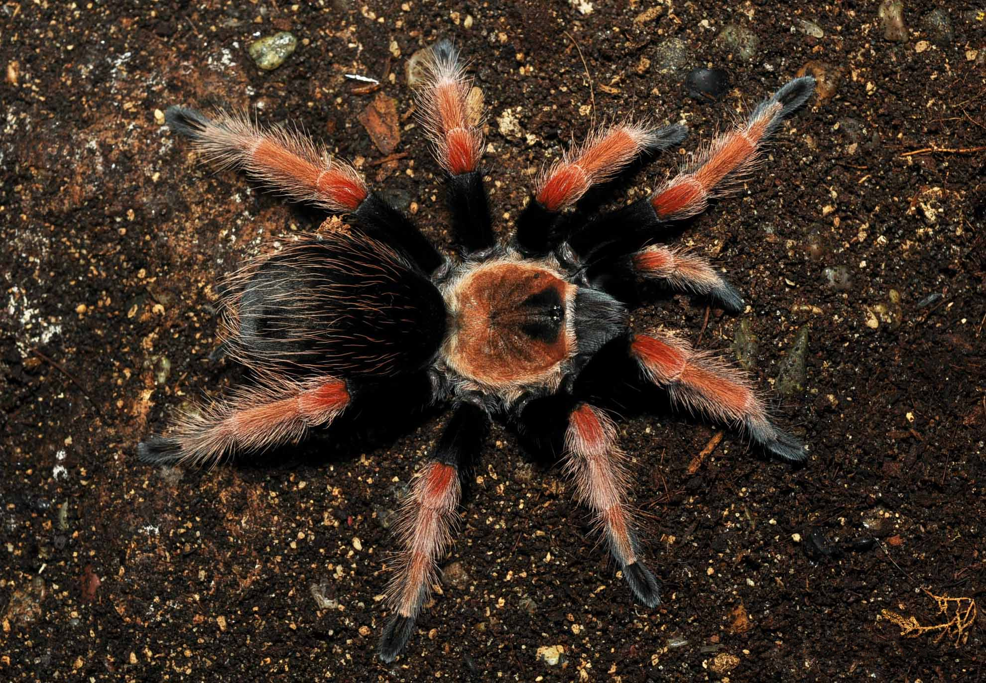 B. boehmei